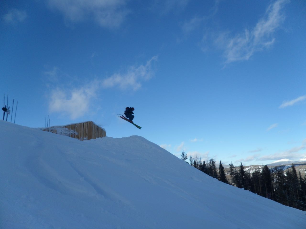 Local Skier launching off the "Log Cabin" jump at Maverick Mountain, MT.